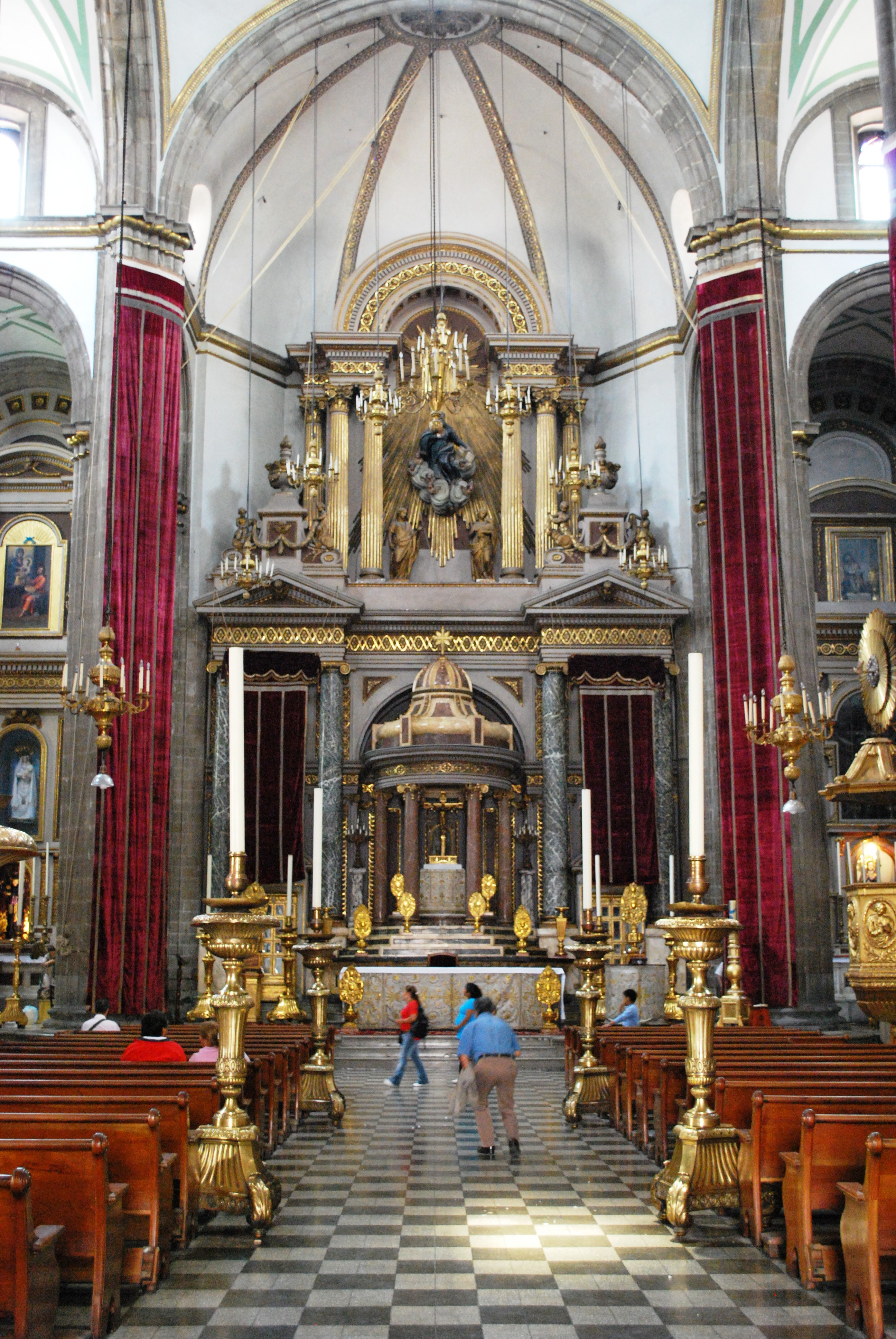 Nave of the La Profesa Church located in the historic center of Mexico City